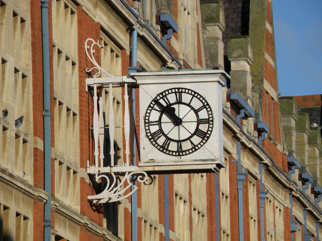 Co-op clock, Park Road This is a working and good looking public clock. It is attached to Westgate house which is a department store of the Cooperative society.